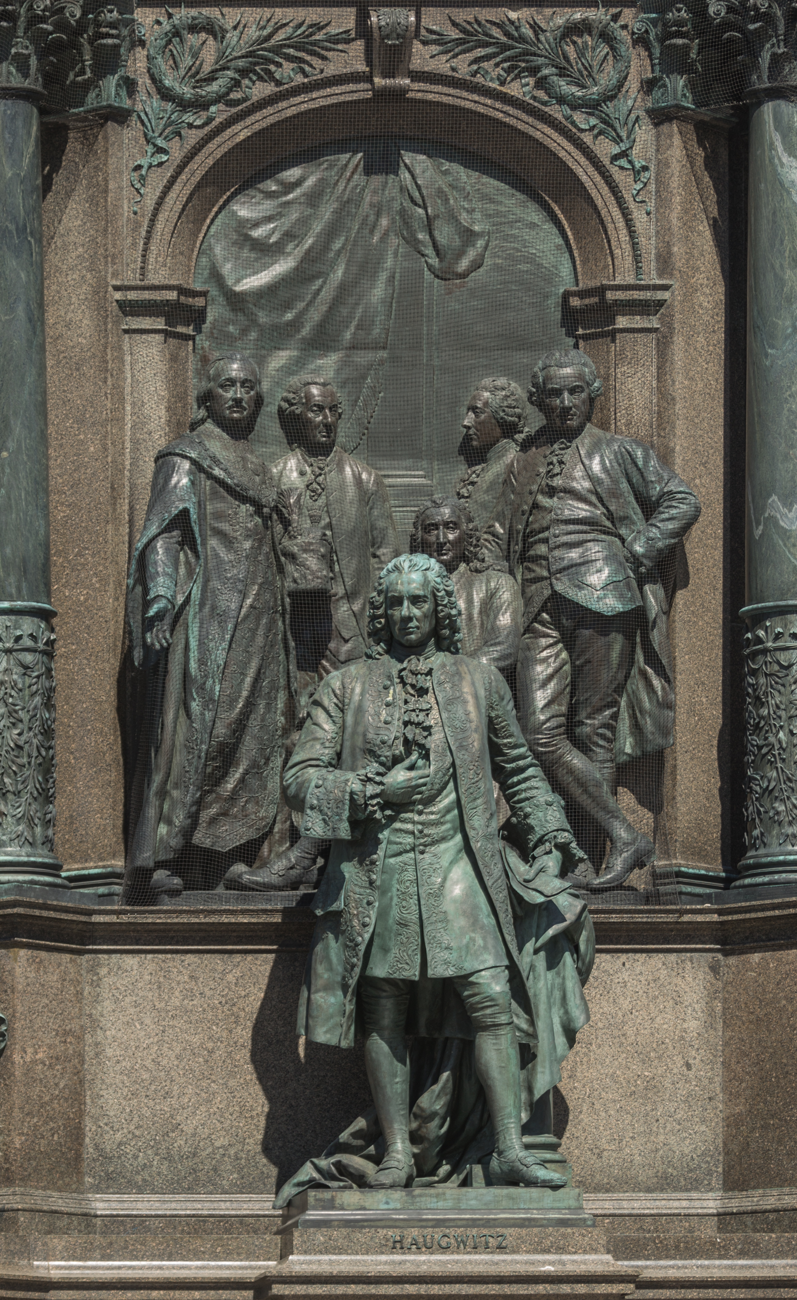 Maria-Theresia-square, Maria-Theresia monument, artist: Kaspar von Zumbusch (errected 1874-1888), Friedrich Wilhelm von Haugwitz The making of this work was supported by Wikimedia Austria. For other files made with the support of Wikimedia Austria, please see the category Supported by Wikimedia Österreich.